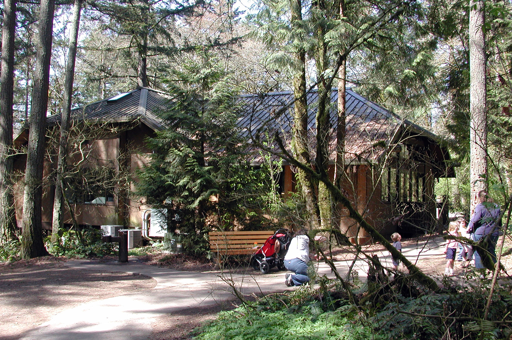 Nature center and shelter at Tryon Creek State Natural Area in Portland, Oregon, United States